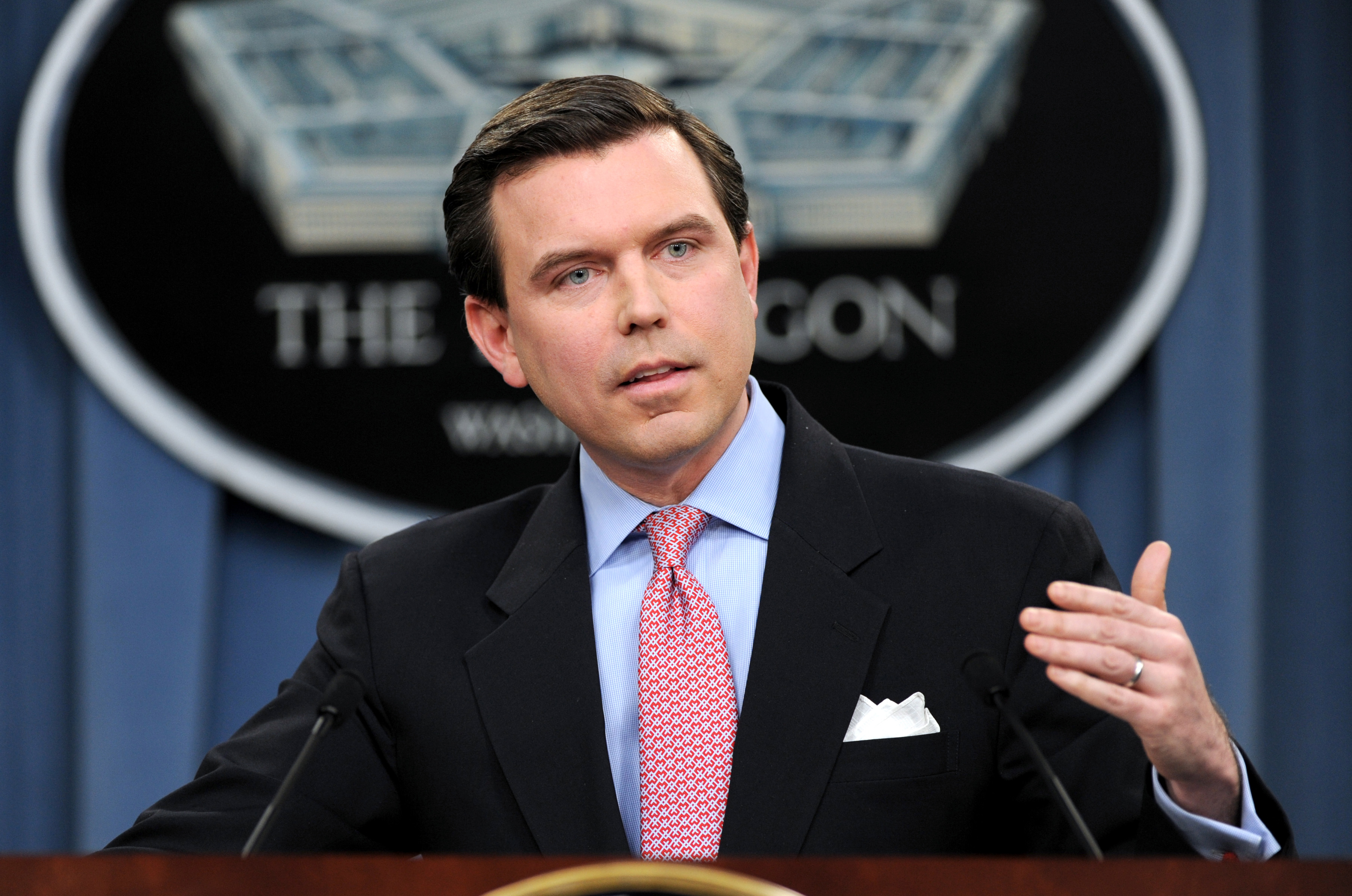 Pentagon Press Secretary Geoff Morrell responds to questions from members of the press during a briefing in the Pentagon on March 25, 2009.